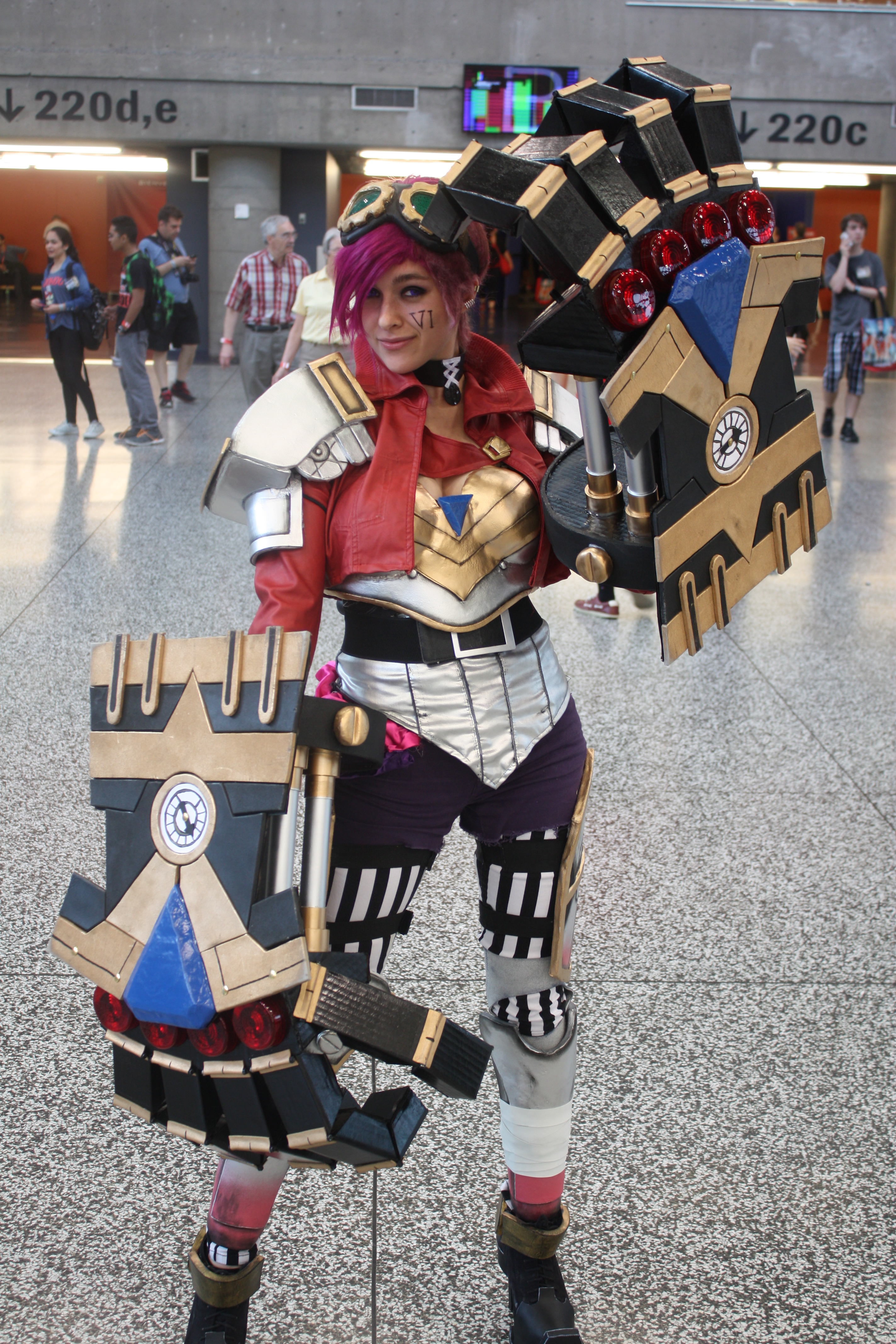 Cosplay one day two of Montreal Comiccon 2015.